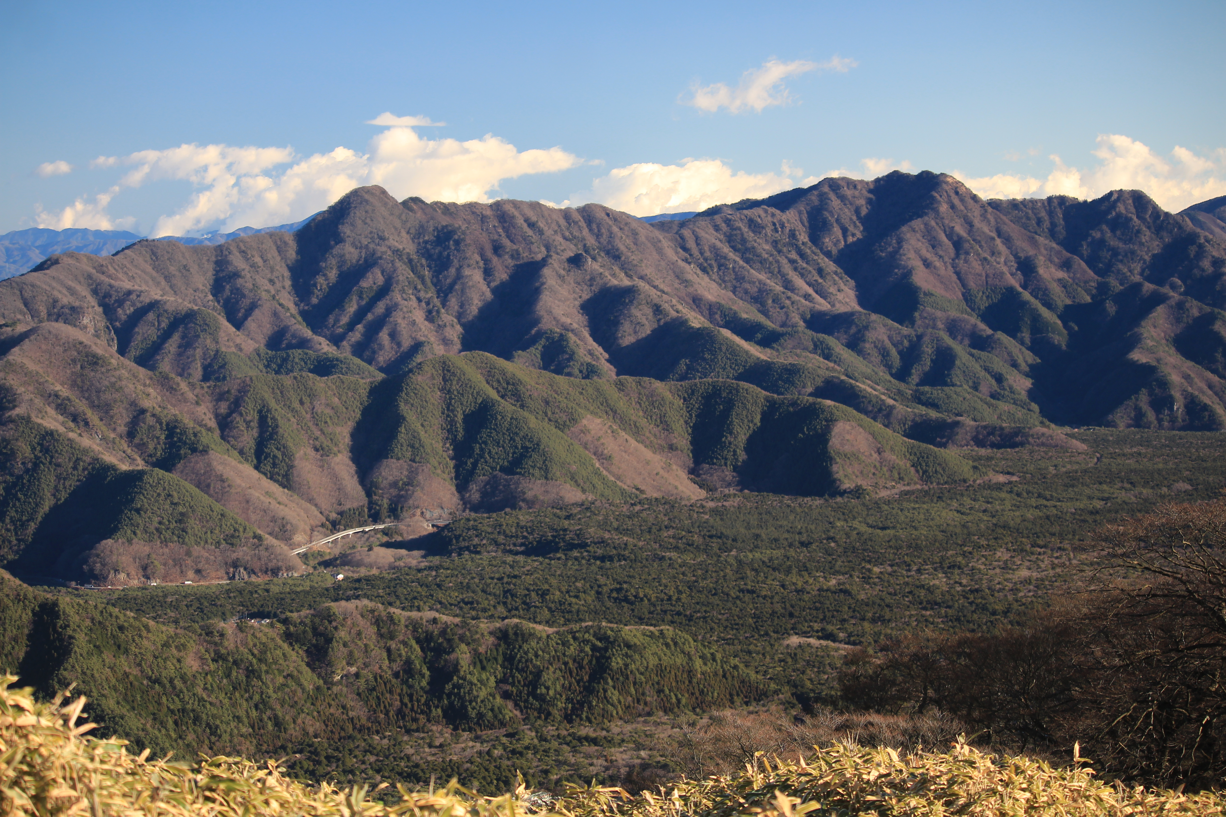 Mount O (Misaka Mountains), Mount Oni (Misaka Mountains), and Aokigahara seen from Mount Ryu of Tenshi Mountains, Japan.